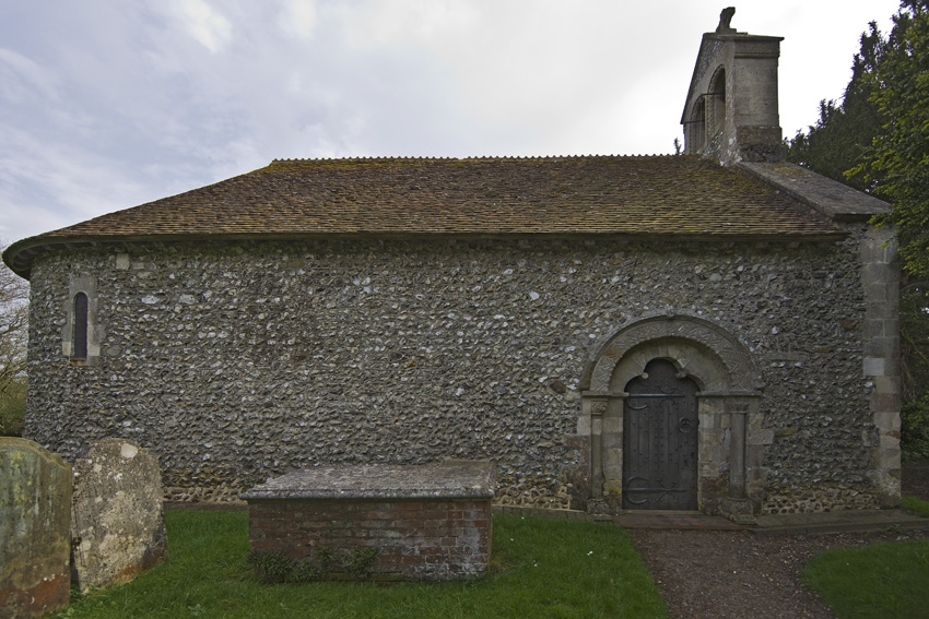 Church of England parish church of St Swithun, Nately Scures, Hampshire: view from the north